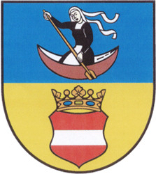 Coat of arms of municipality Chřibská, Děčín District, Czechia.